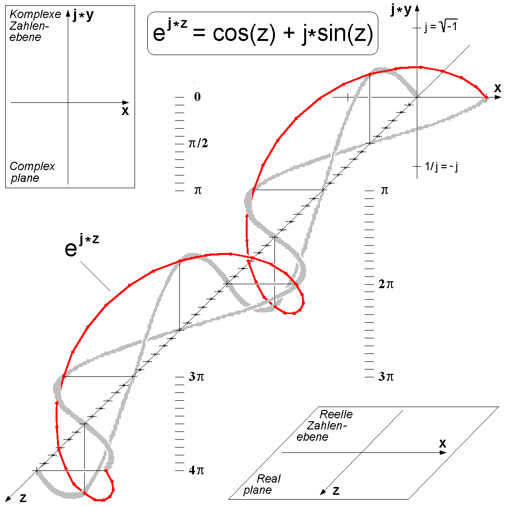 Three-dimensional figure of Euler's formula